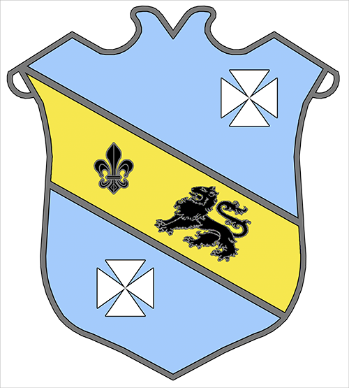 Club crest for Bruff Rugby Football Club